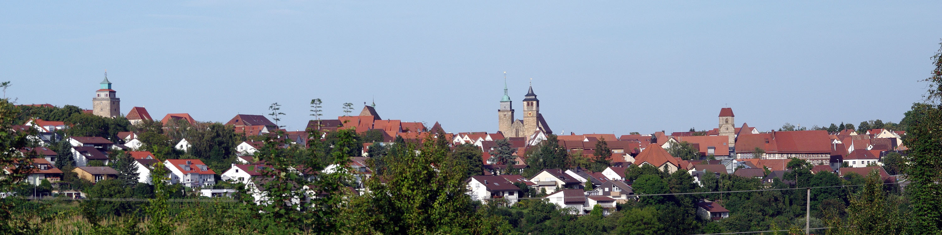 Skyline of Markgroeningen, Germany.